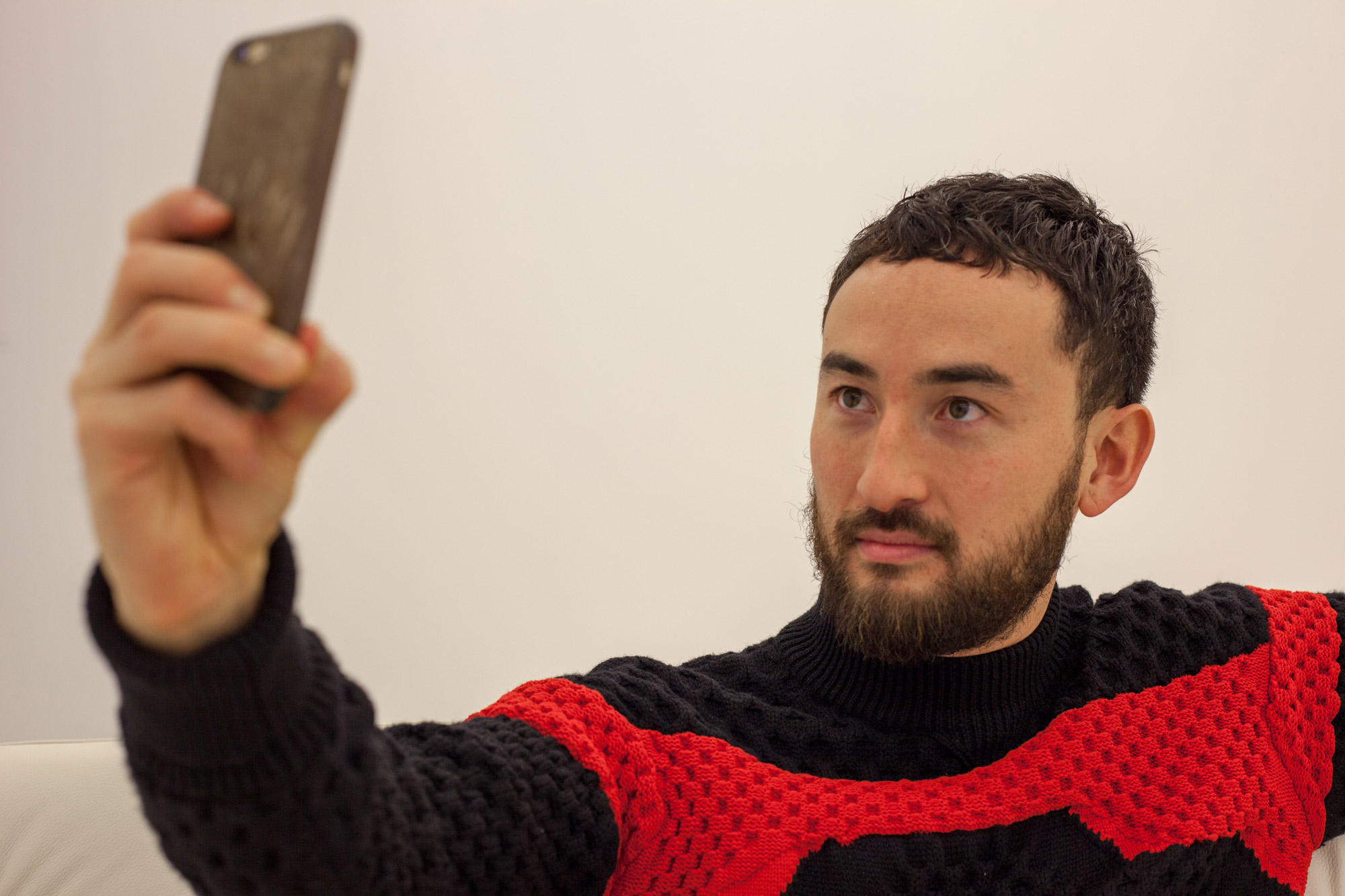 The English artist Simon Fujiwara at the opening of his exhibition in Düsseldorf, Germany.